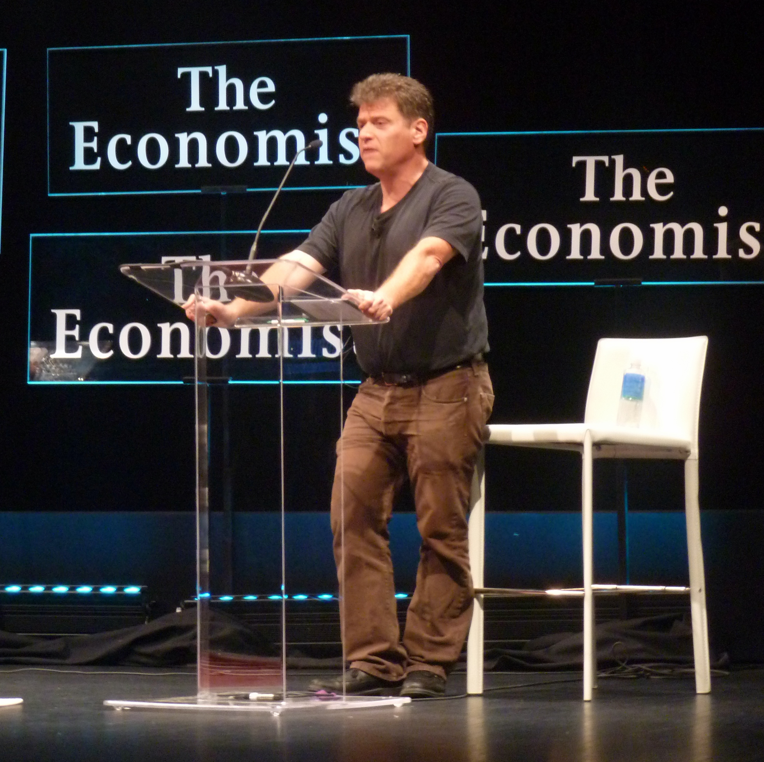 Andrew Keen speaking in San Francisco at Information 2012: Big data and the evolution of smart systems.